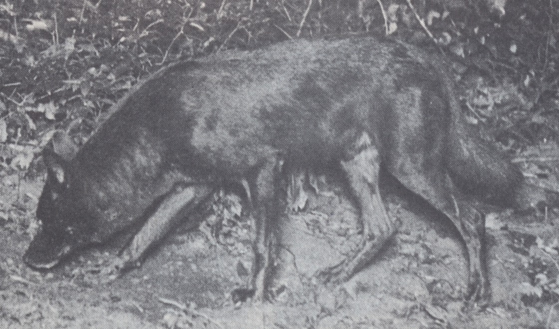 Melanistic red wolf.